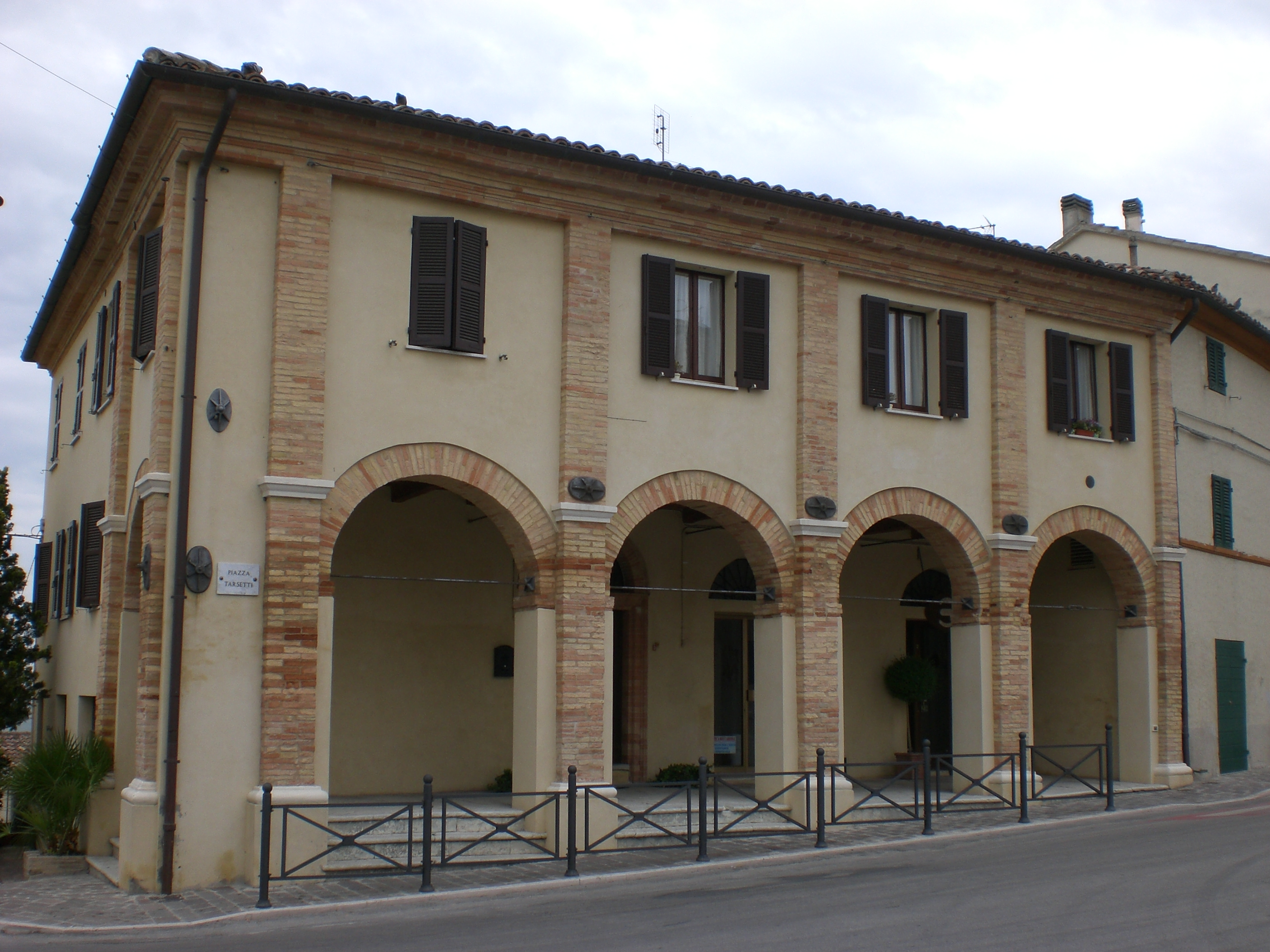 Morro d'Alba, Merchant's Loggia